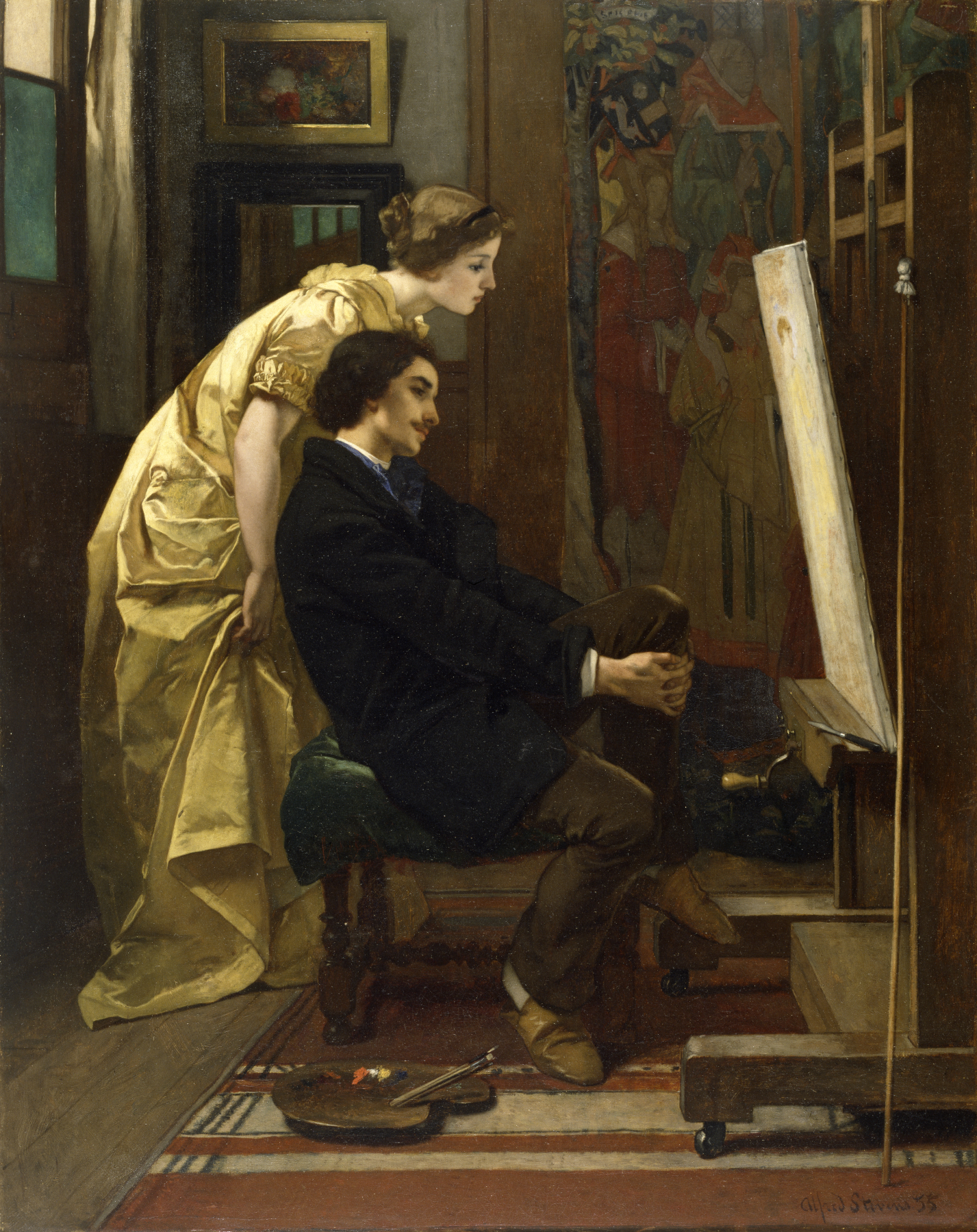 Stevens, a native of Brussels, spent much of his career in Paris where he was regarded as one of the most important recorders of the bourgeois and aristocratic levels of la vie moderne. In this early work, a young woman leans over the shoulder of an artist, presumably Stevens himself, who is regarding his unfinished canvas on the easel. Hanging in the background of the studio is a Flemish tapestry showing an Adoration scene.